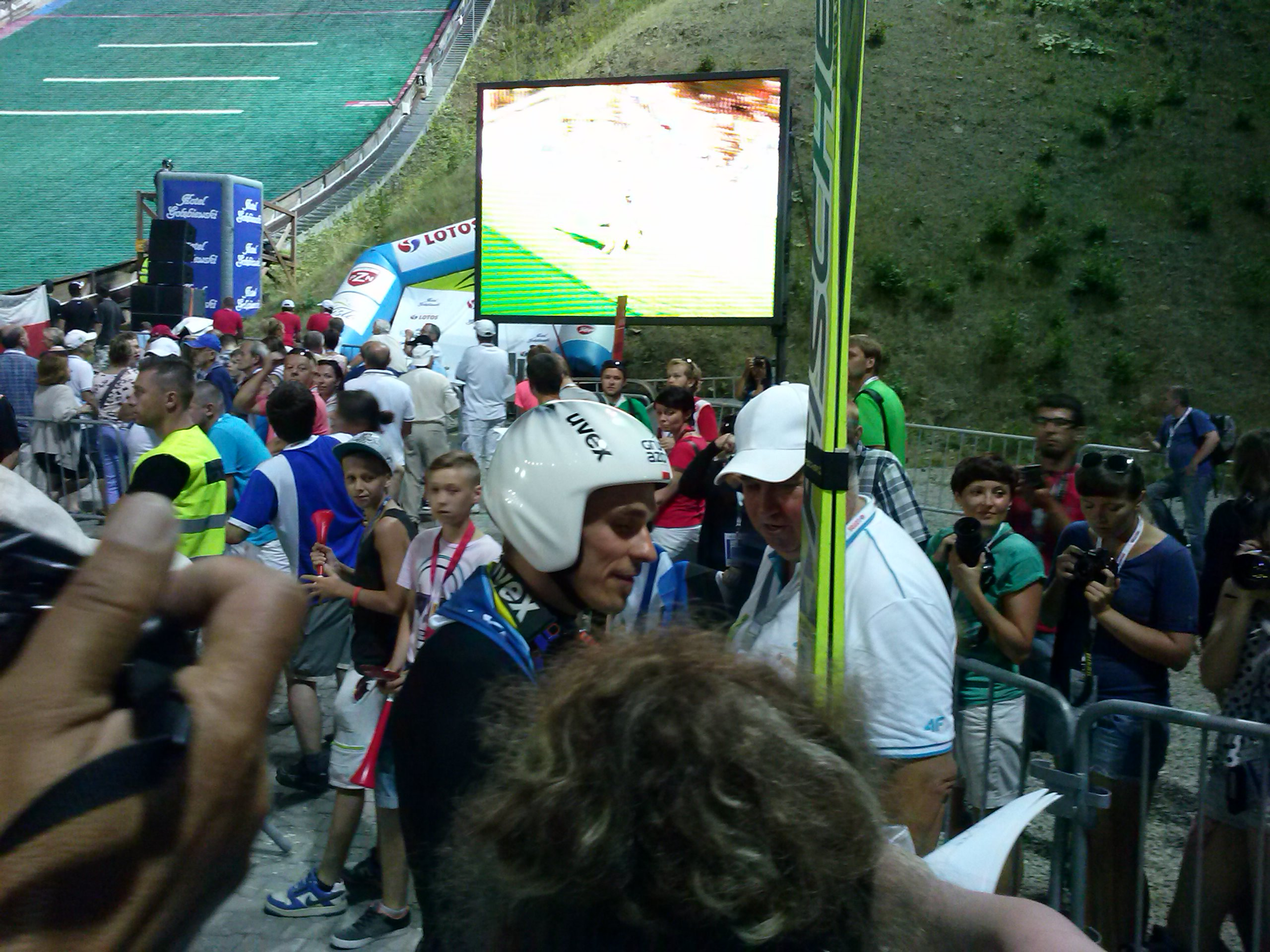 Piotr Żyła - polish ski jumper during FIS Summer Grand Prix 2013 in Wisła.